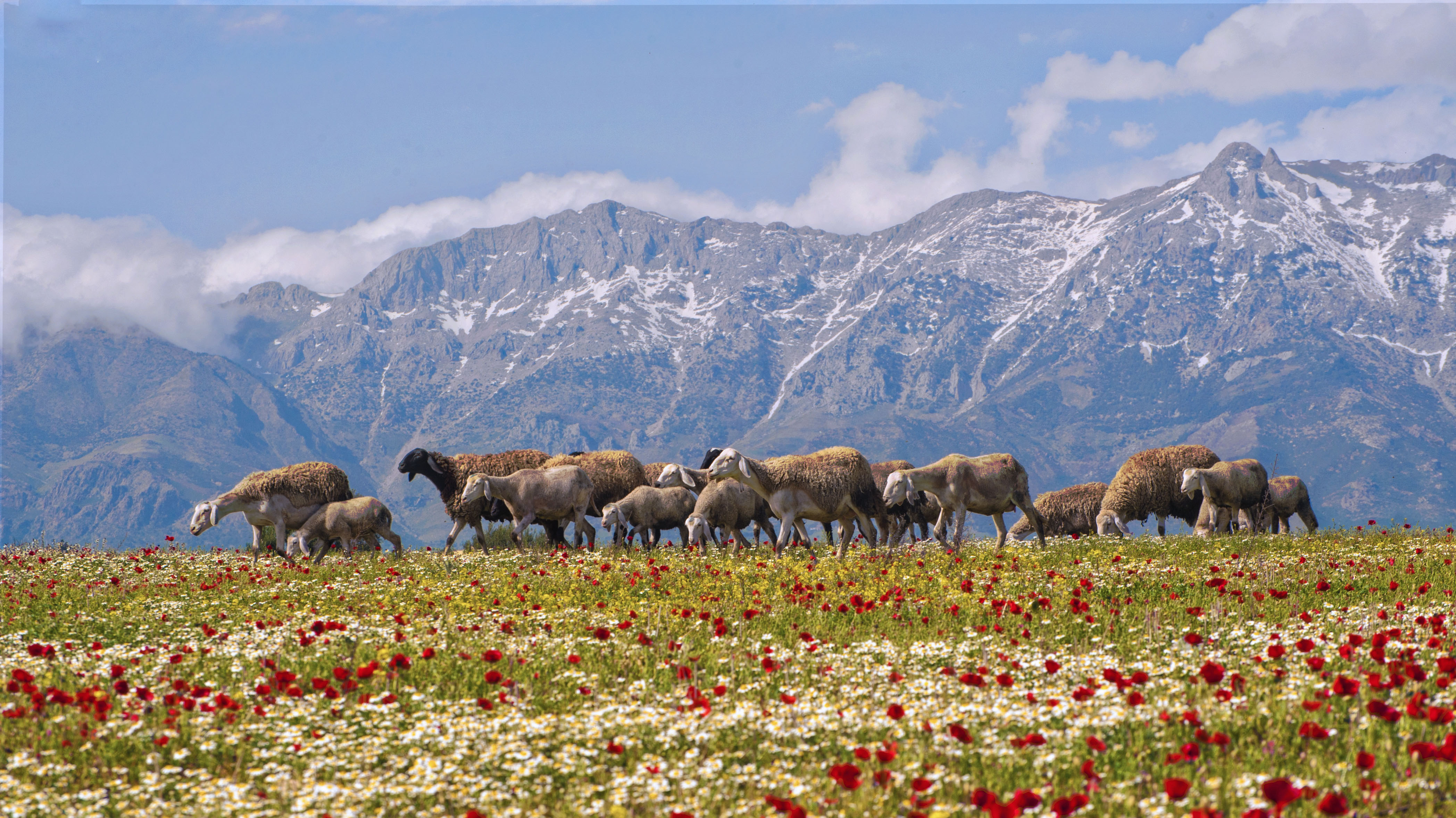 Sheep in nature in El Asnam mountain, wilaya of Bouira